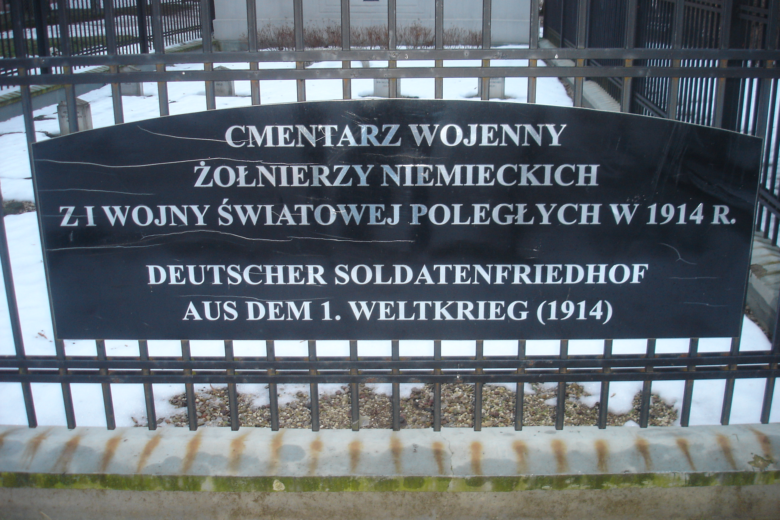 Ełk-Tablica Cmentarza wojennego, Kajki